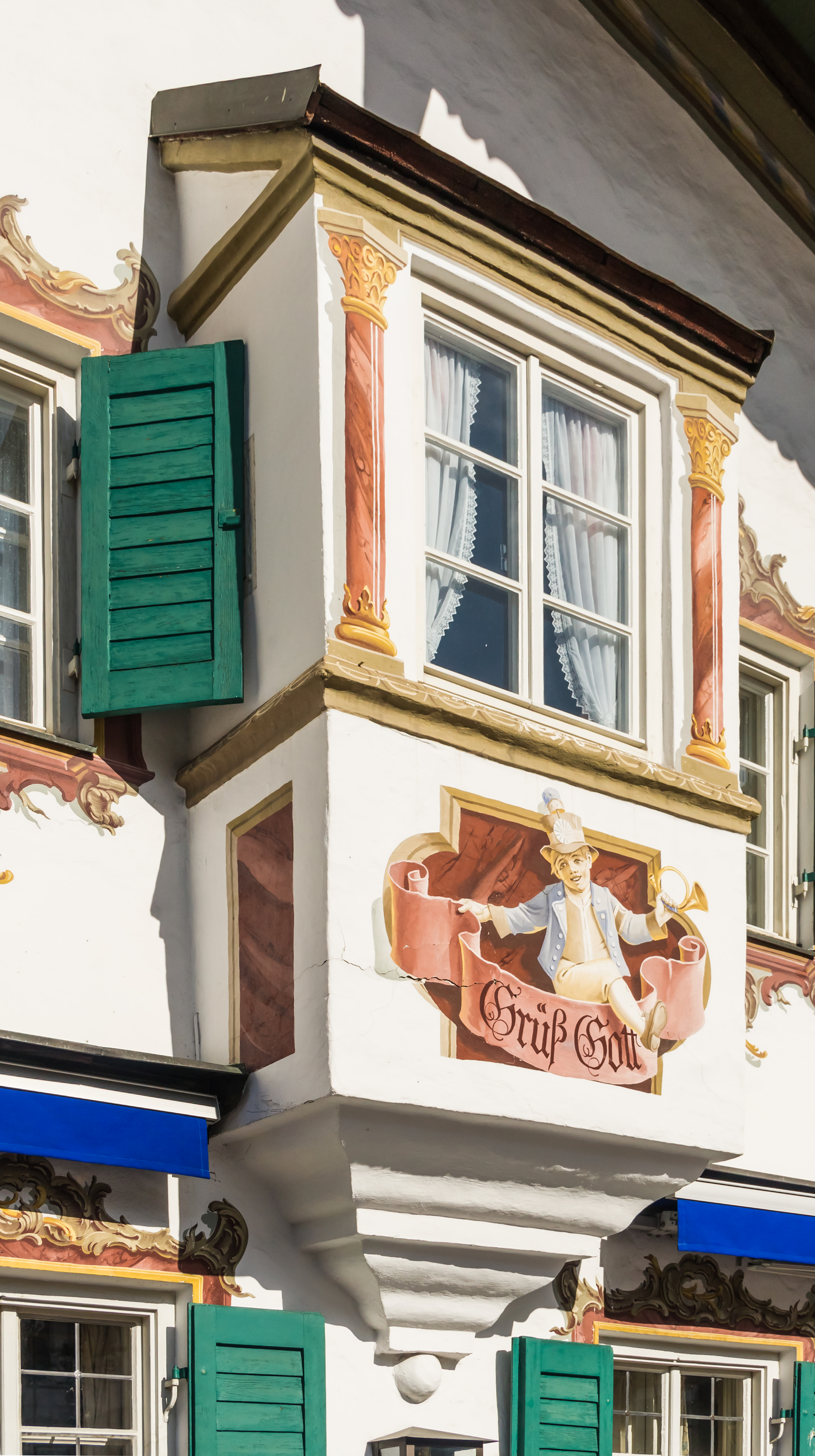 Bow window of an inn in Oberammergau, Bavaria, Germany. "Grüss Gott" is used in Bavaria and Austria instead of "Guten Tag" ("Hi", "Hello", "Good day")